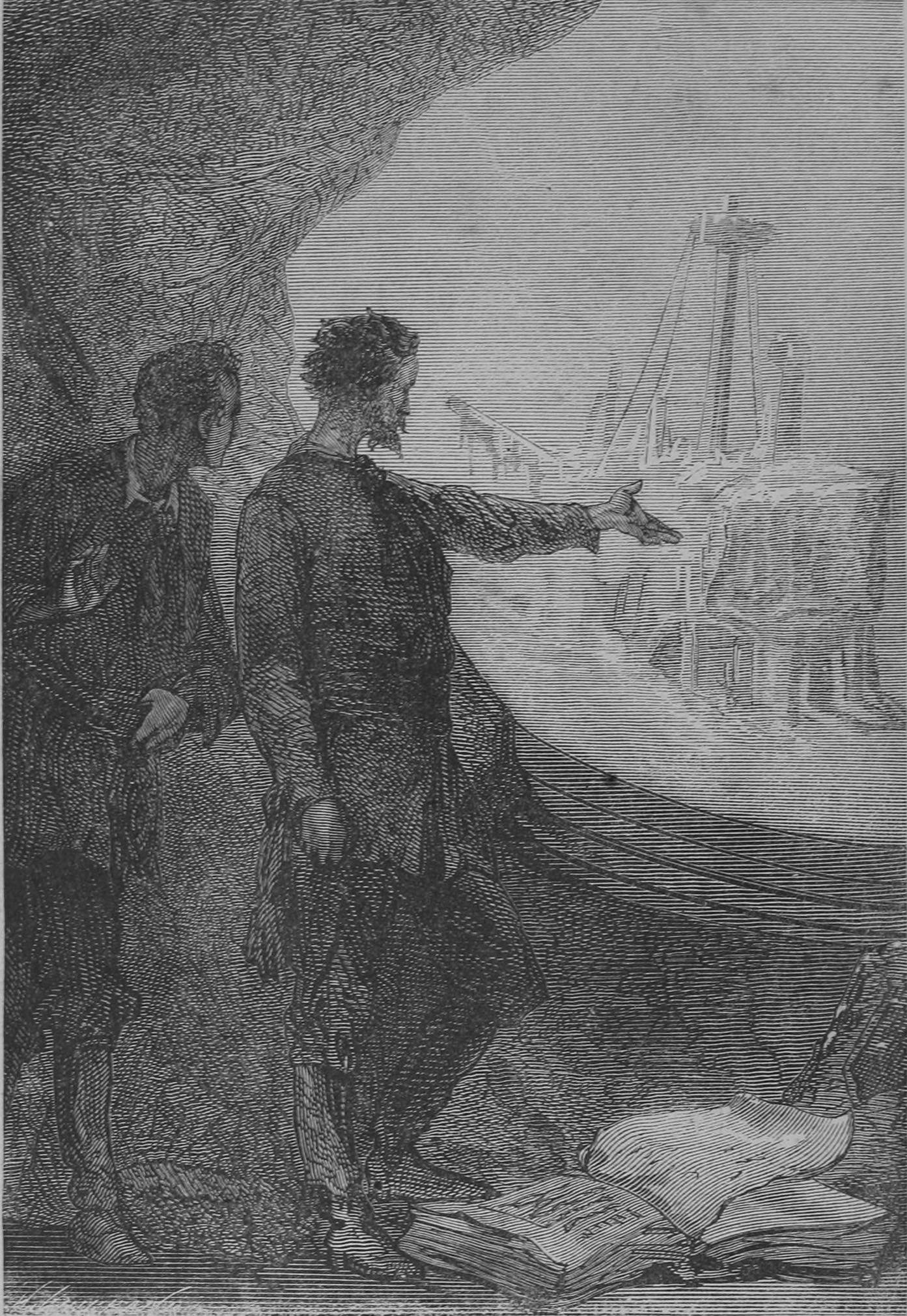 Image from scan vingtmillelieue00vern_orig_0428.jp2